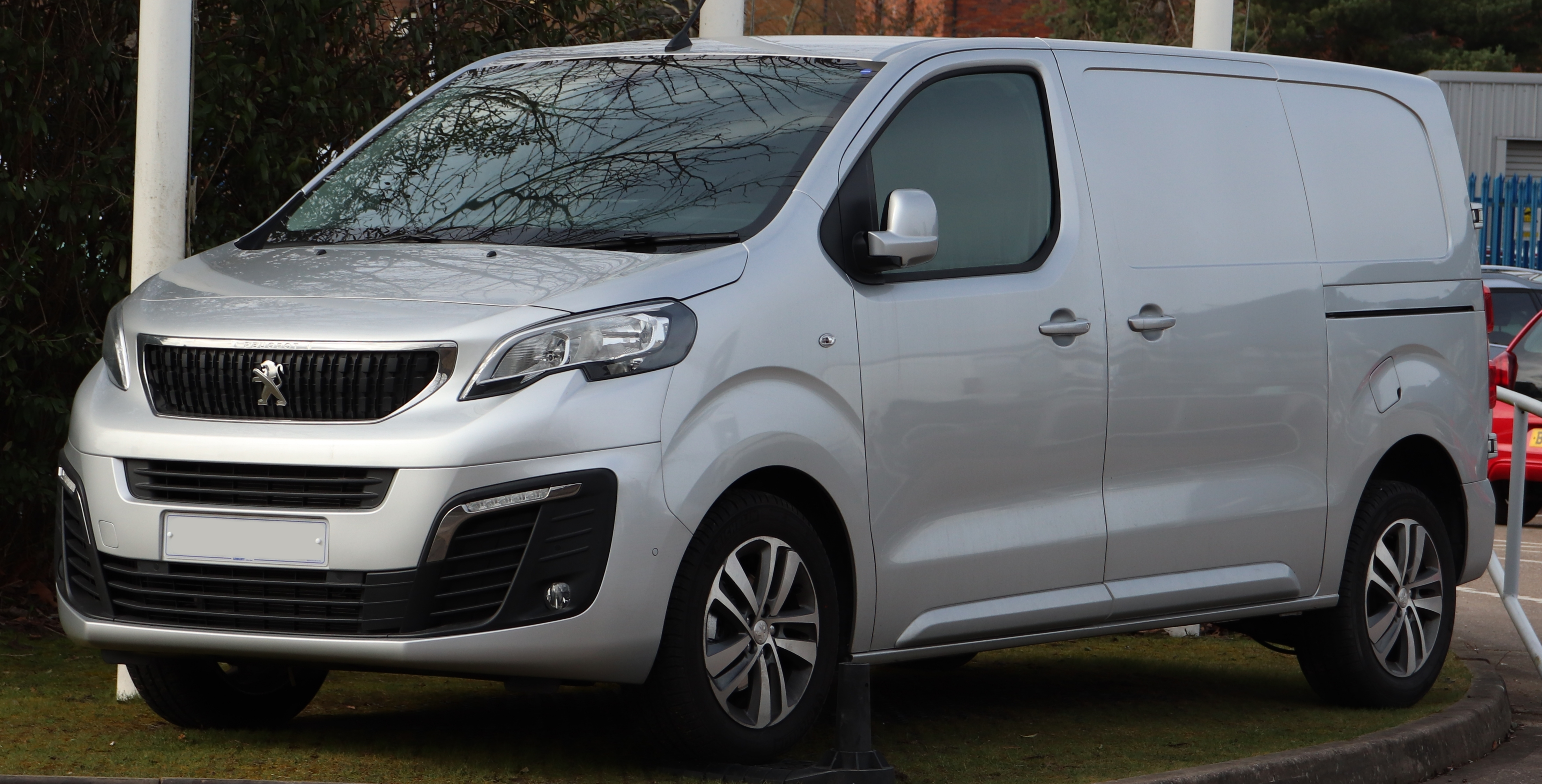 2018 Peugeot Expert Pro+ Standard Blu 2.0 Taken in Leamington Spa